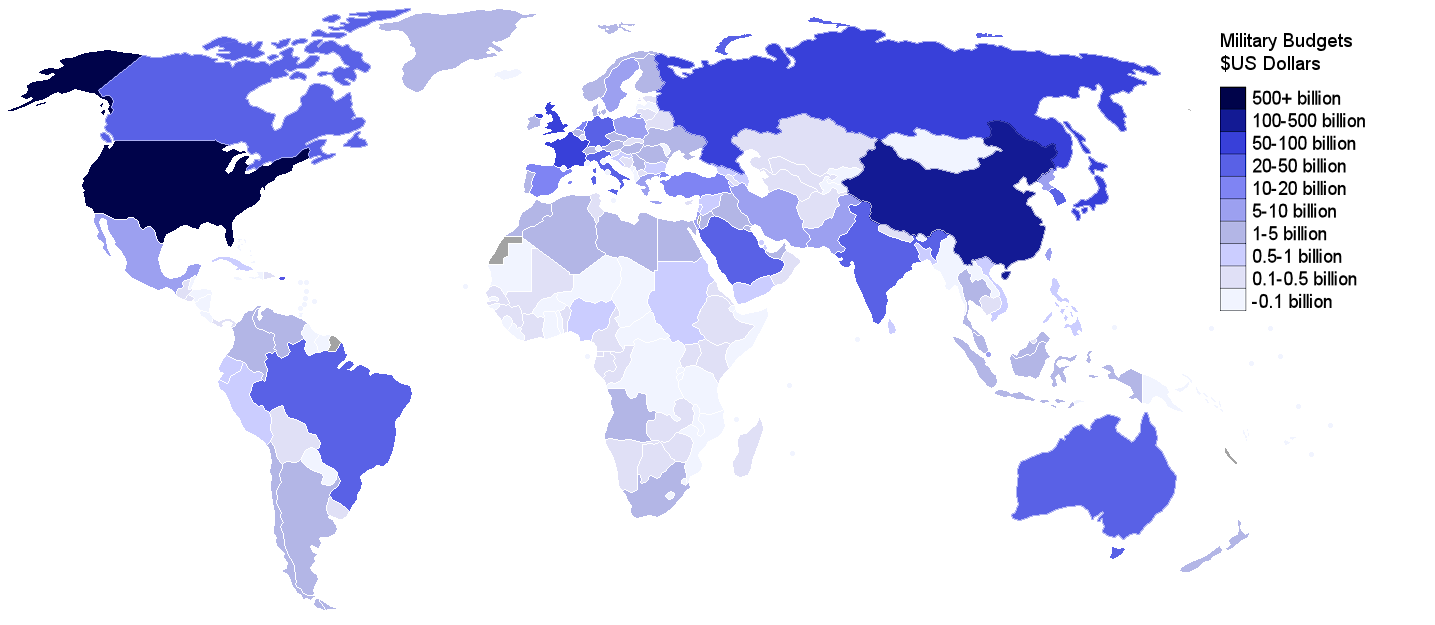 updated map.